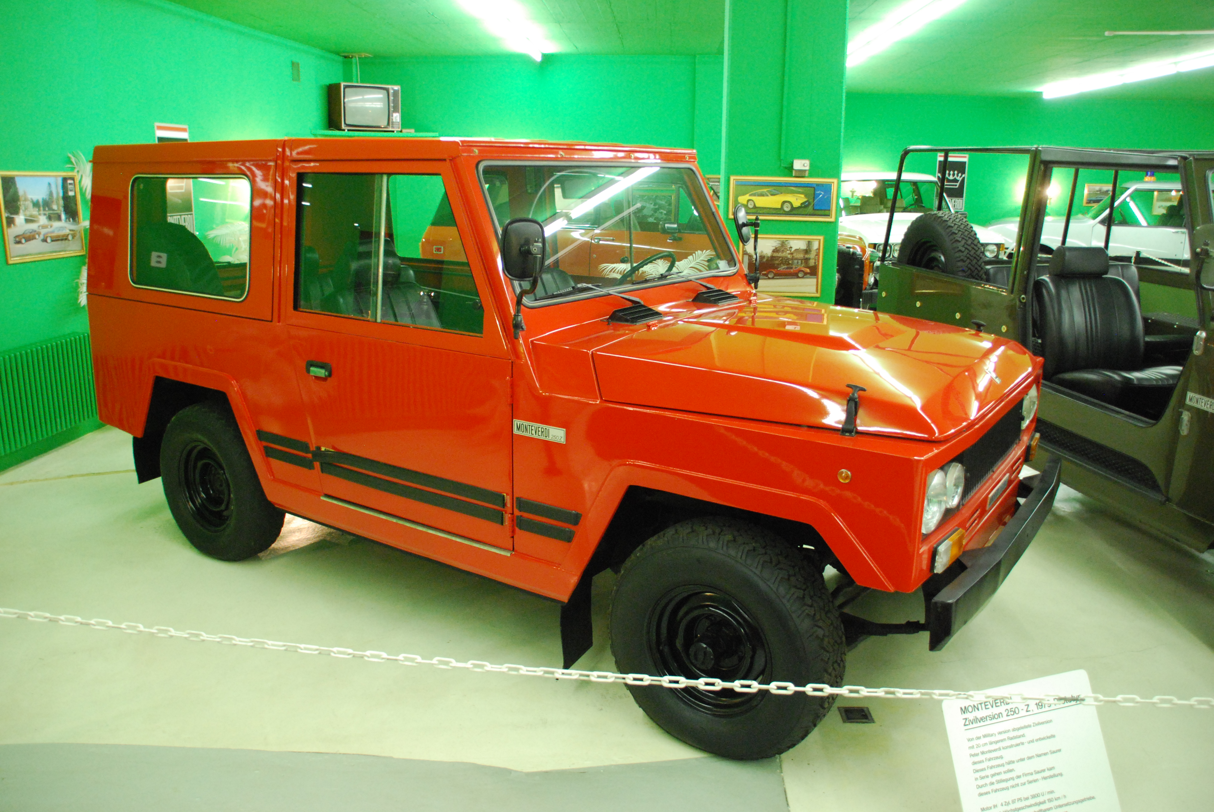 Monteverdi 250 Z Prototype